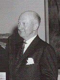 George H. Roderick